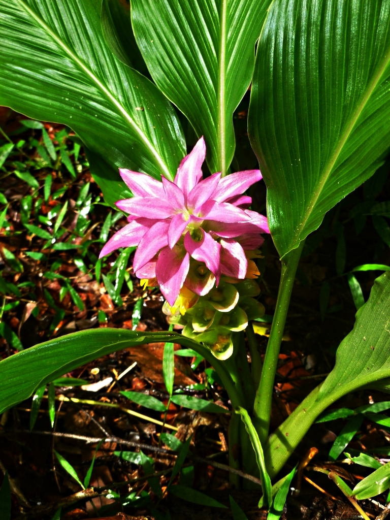 I took this photo in the bush near Cooktown.